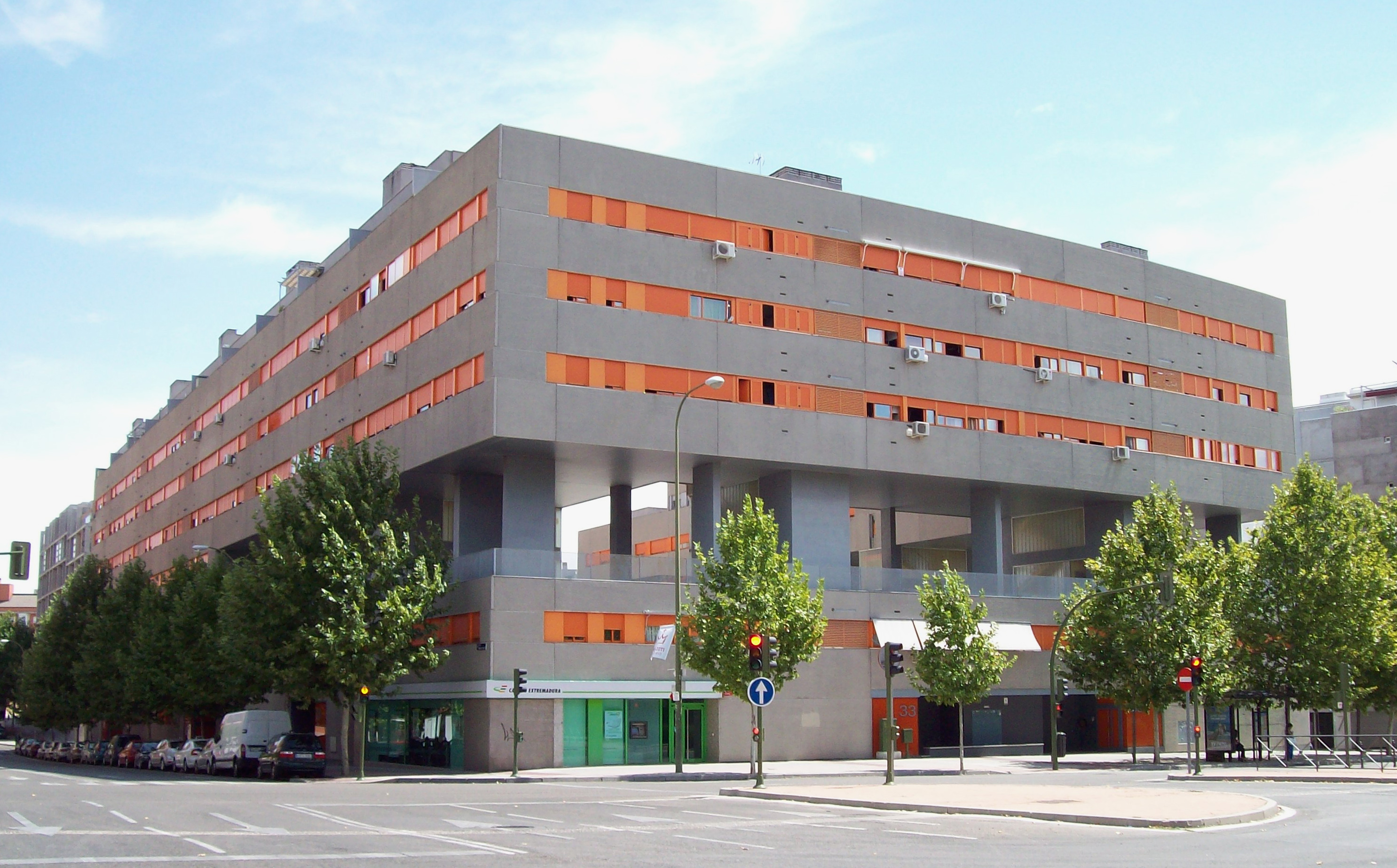 View of Carabanchel 8 building in Madrid (Spain).